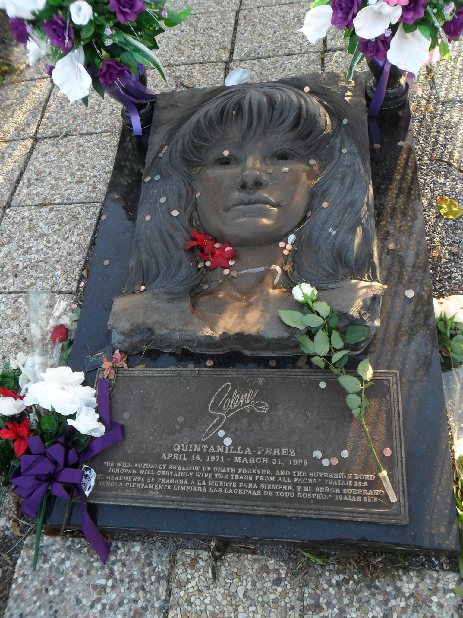 Selena's tombstone in Seaside Memorial Cemetery in Corpus Christi